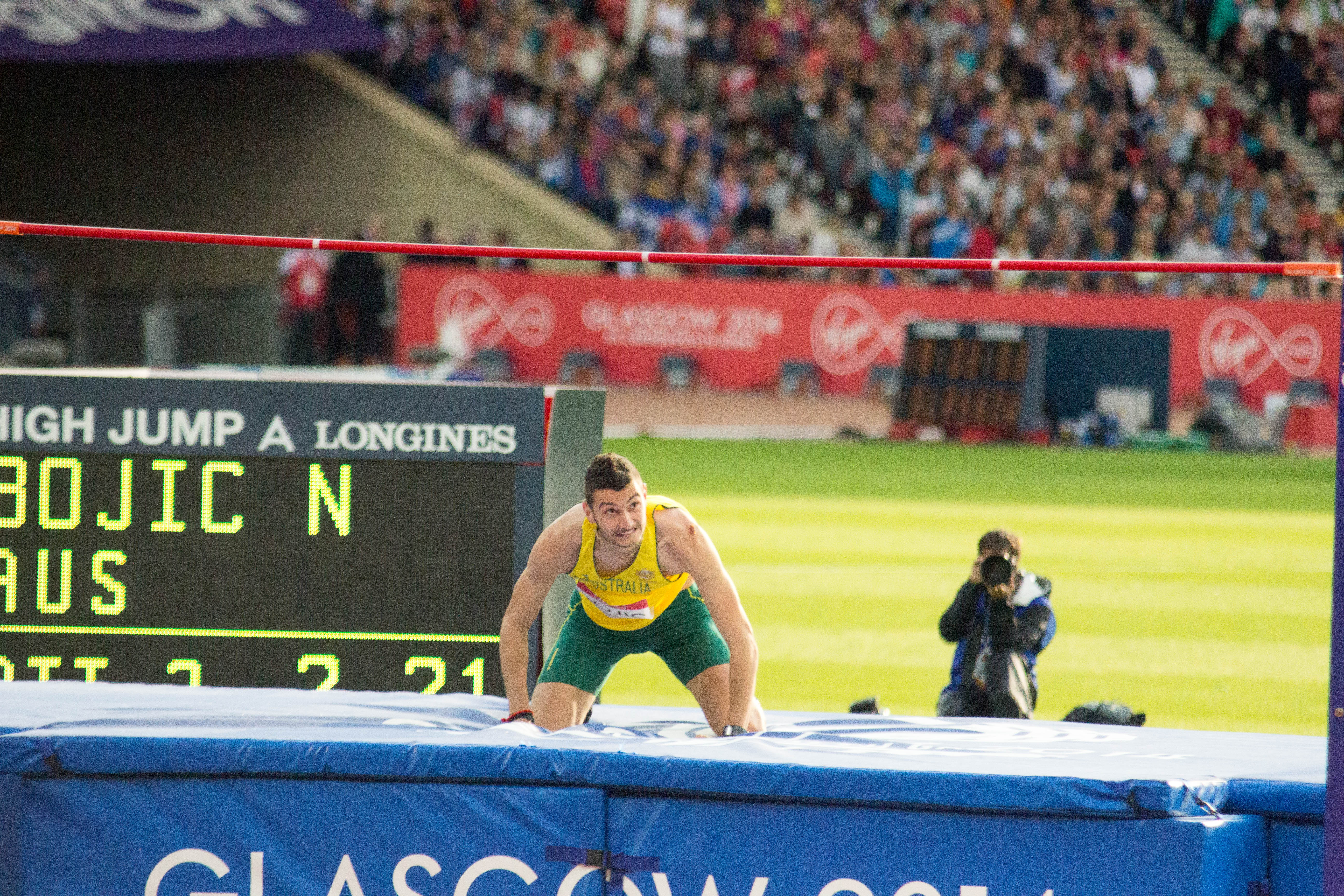 Commonwealth Games 2014 - Athletics Day 4 2014 Commonwealth Games Day 4: Athletics